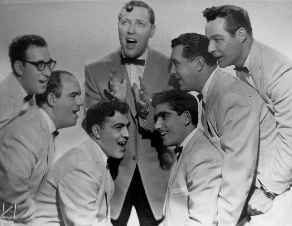 Photo of Bill Haley and his Comets. Decca Records issued the ad without any copyright marks or notations. The photo is a larger version of that in the Decca ad. US Copyright Office page 3-magazines are collective works (PDF) "A notice for the collective work will not serve as the notice for advertisements inserted on behalf of persons other than the copyright owner of the collective work. These advertisements should each bear a separate notice in the name of the copyright owner of the advertisement." Copyright for Billboard magazine would not affect this non-marked Decca Records ad. Decca didn't label their ad as under copyright.